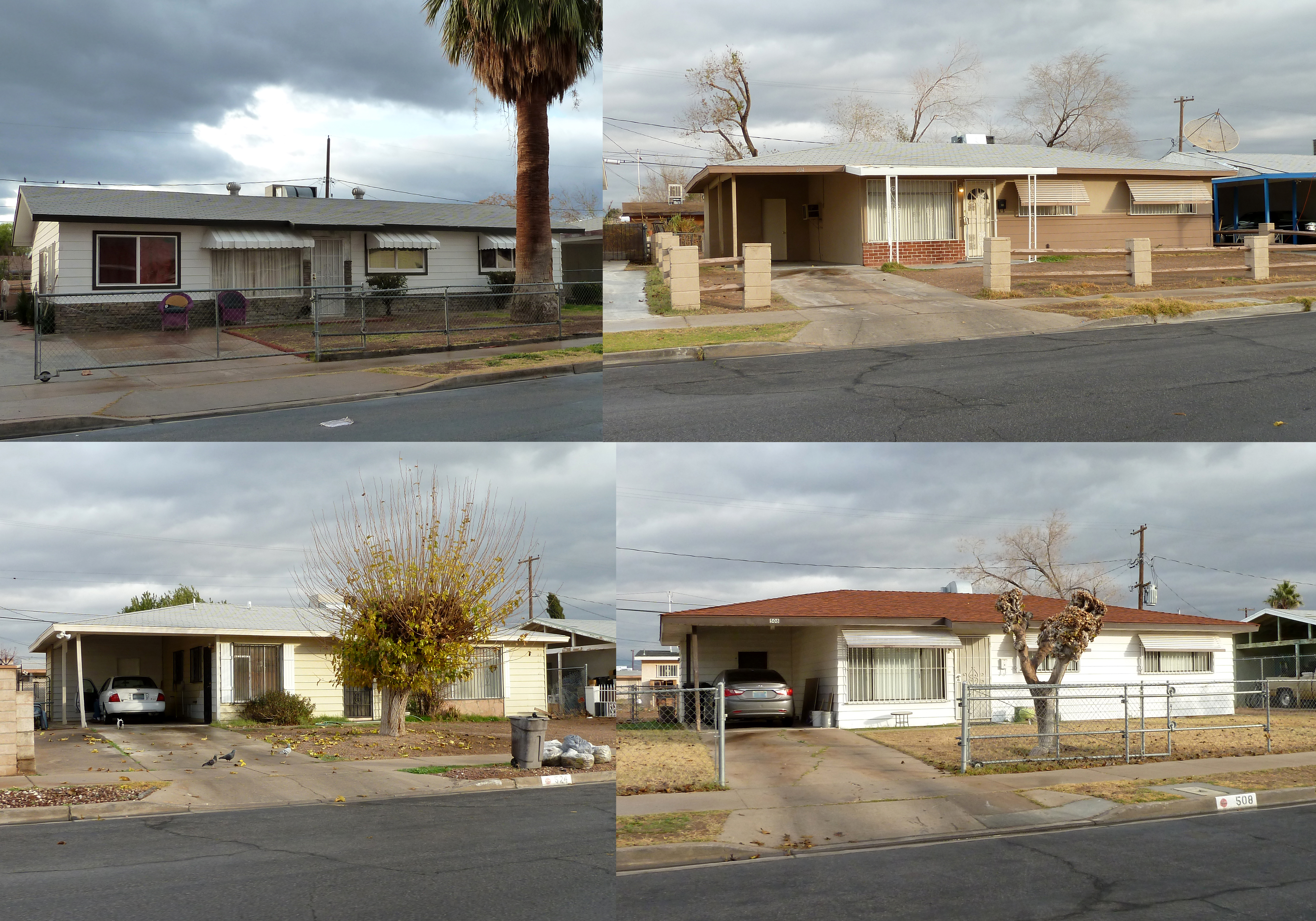 Selection of homes from Berkley Square, Las Vegas, Nevada, USA.